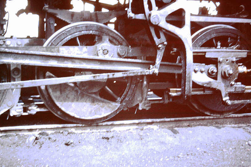 Running gear of Soo Line 0-6-0 No. 346 operating at Koppers Coke in St. Paul, MN in August of 1961